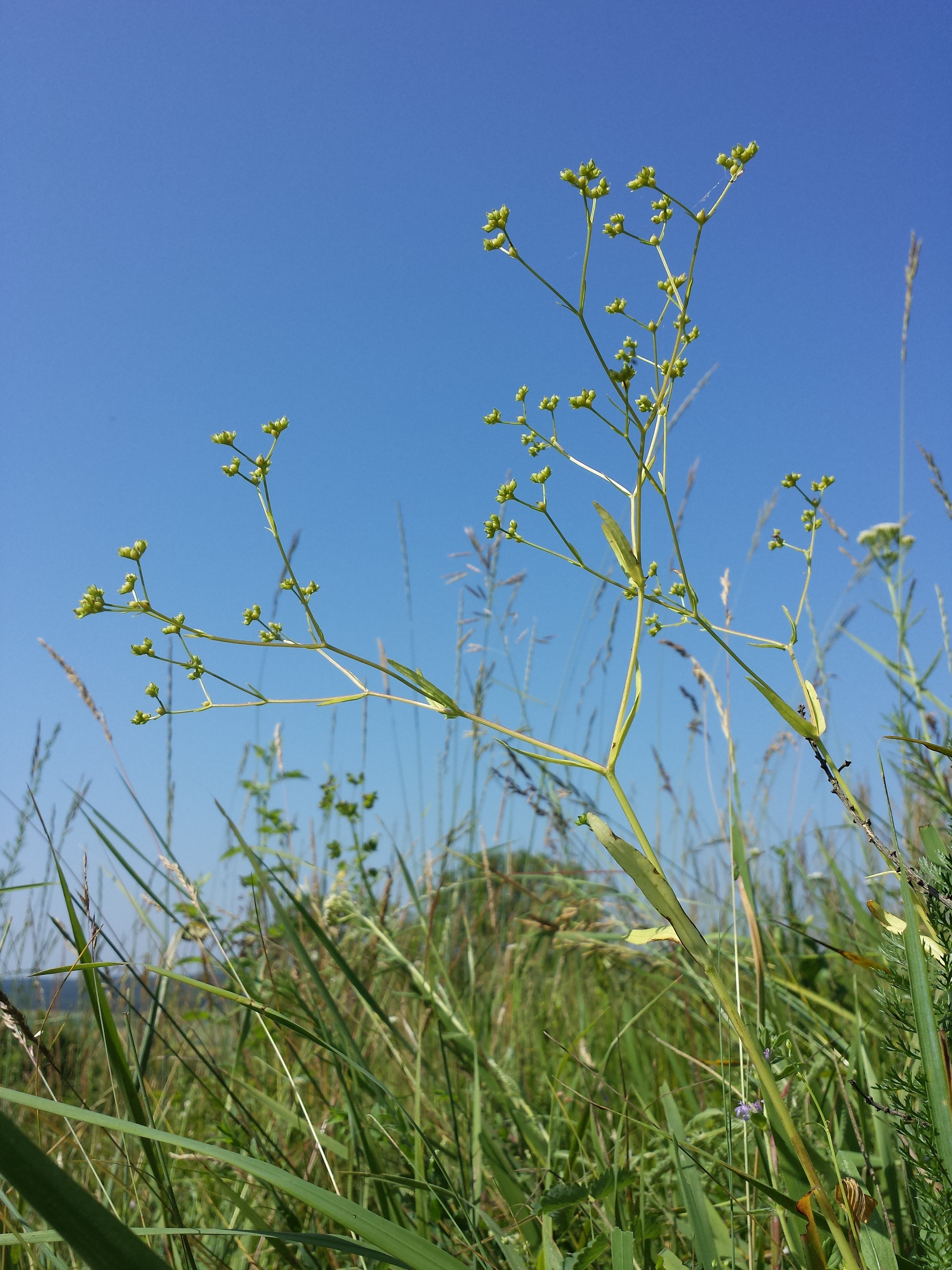 Habitus Taxonym: Valerianella rimosa ss Fischer et al. EfÖLS 2008 ISBN 978-3-85474-187-9 Location: Geißberg near Eggendorf im Thale, district Hollabrunn, Lower Austria - ca. 300 m a.s.l. Habitat: semi-dry grassland